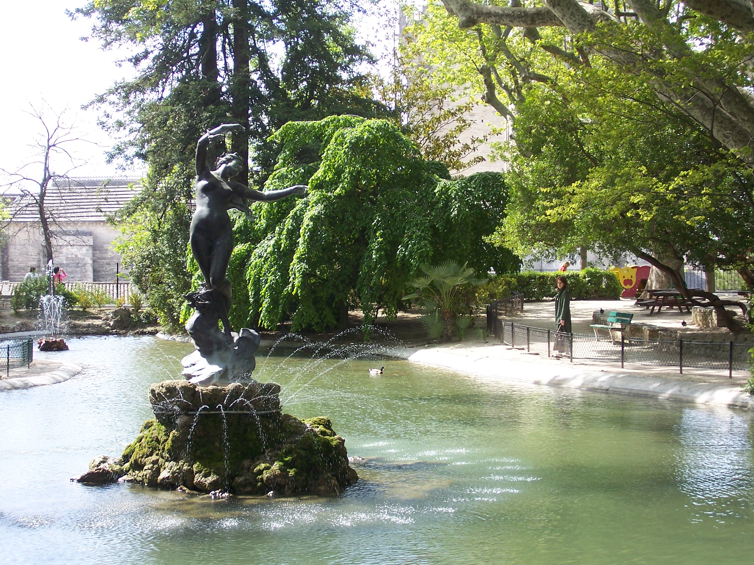 garden in Avignon near the palace of popes